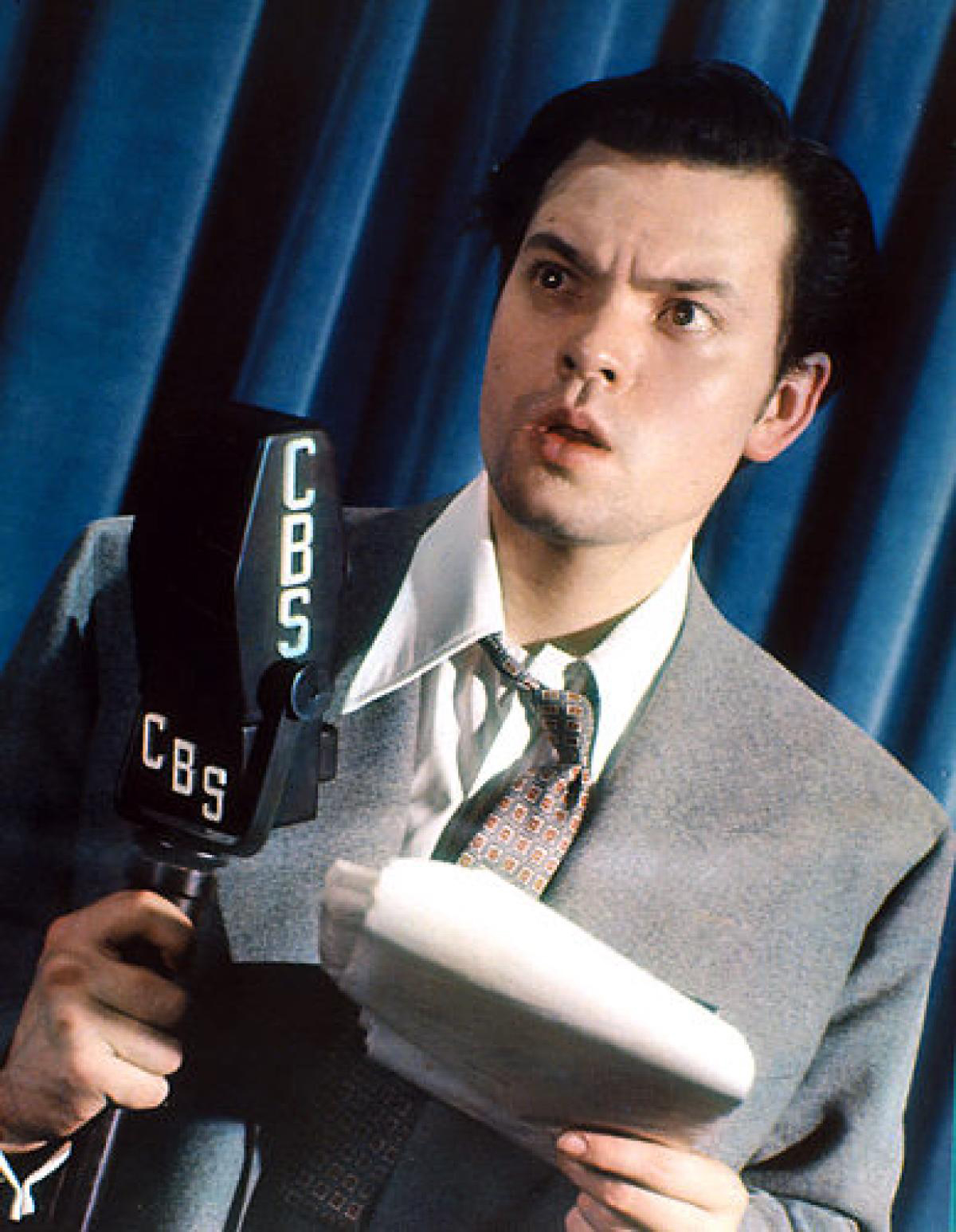 Color portrait photograph of Orson Welles on the cover of the New York Sunday News, recreating the CBS Radio studio in the newspaper's photographic studio in 1938 Biographical profile related to the front cover begins as follows: Orson Welles in Coloroto You'll find a picture of young Orson Welles, the nation's No. 1 radio bogey man, on page one of today's Coloroto Section.